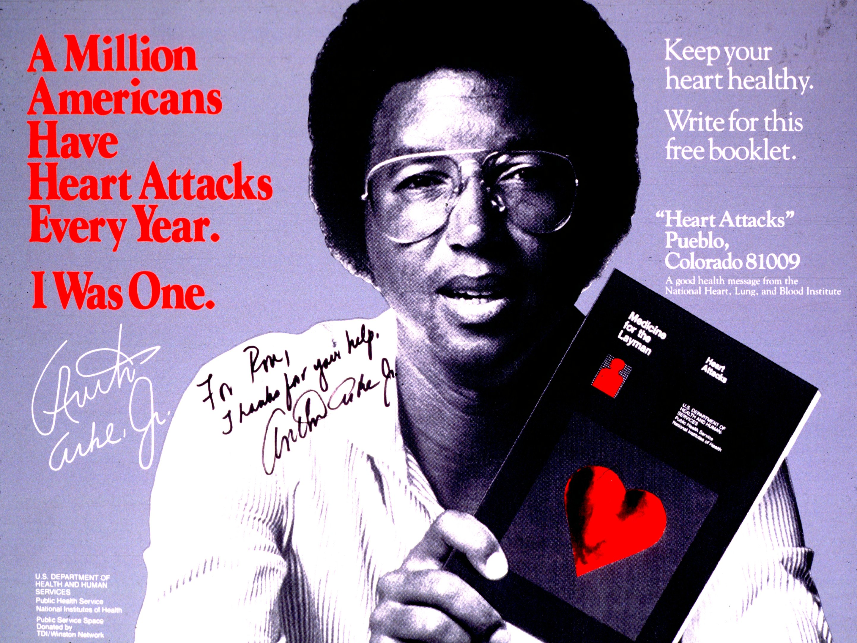 Collection: Images from the History of Medicine (NLM) Title: A million Americans have heart attacks every year I was one. Title (Added 2): Medicine for the layman. Contributor (Organization): National Institutes of Health (U.S.) Subject (Genre): Posters Subject (MeSH Term): Heart Diseases prevention & control Publication Information: [Bethesda, Md.] : U.S. Dept. of Health and Human Services, Public Health Service, National Institutes of Health, [198-?] Publication Country: United States Copyright Statement: The National Library of Medicine believes this item to be in the public domain. Order No.: C00619 Physical Description: 1 photomechanical print (poster) : col. ; 46 x 63 cm. Image Description: Full face shot of Arthur Ashe, Jr. holding the book "Medicine for the layman. Heart attacks." To Arthur's right is his signature and a signed message: "For Ron, Thanks for your help." Subject (Person): Ashe, Arthur. Note (General): Picture caption: Keep your heart healthy. Write for this free booklet. "Heart Attacks" Pueblo, Colorado 81009. A good health message from the National Heart, Lung, and Blood Institute. Note (General): Similar to HMD PP02619 (jpg available) but gives a fuller shot of Arthur Ashe as he holds the book, rather than having the book off to the side. Language: eng Restrictions on Access: HMD provides access to digital images in lieu of originals when electronic copies exist. Access to originals may require advance notice. Please see HMD Reference Librarian for more information. Funding Agency: Public Service space donated by TDI/Winston Network. URL: Call Number: PP02786 map Record UI: 101453984